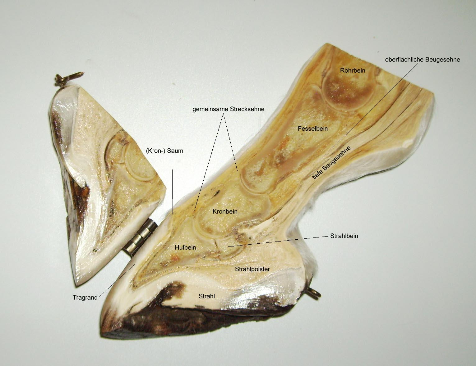 freeze-dried cut through a hoof photographed by Bleizucker